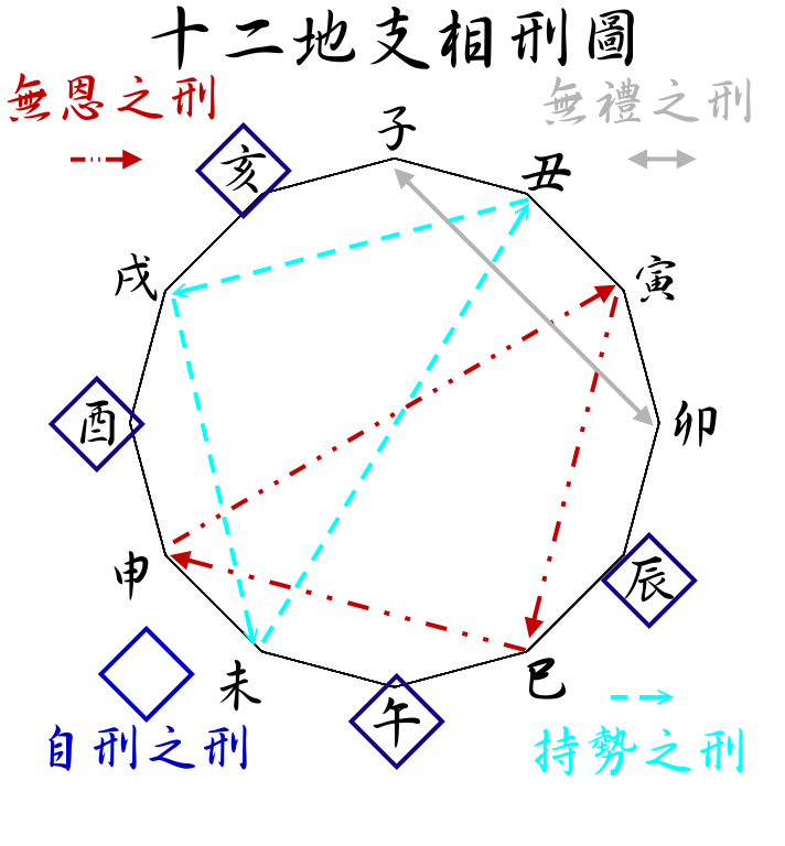 How earthly branches harms each other.